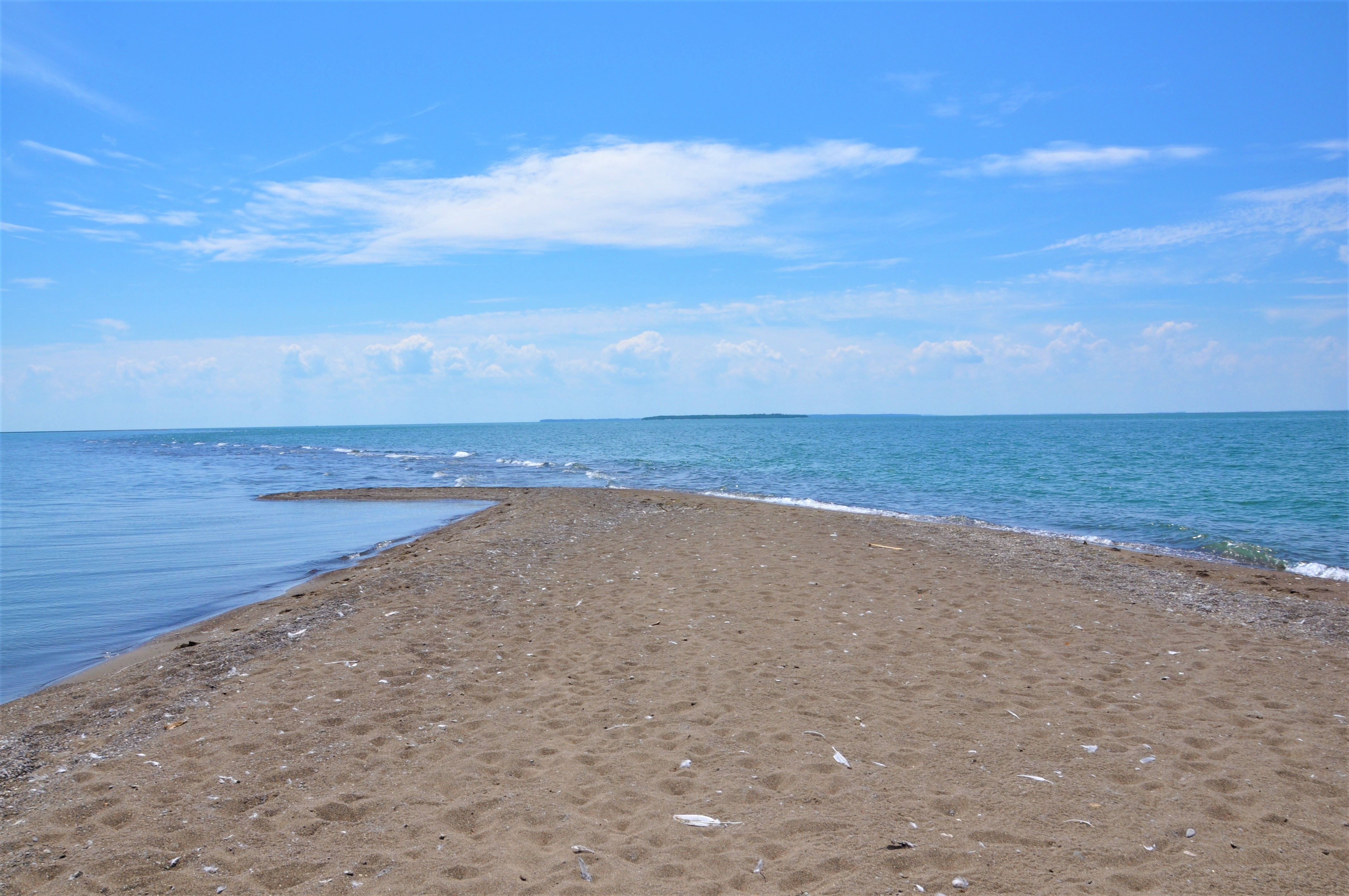 Pelee Island tip looking